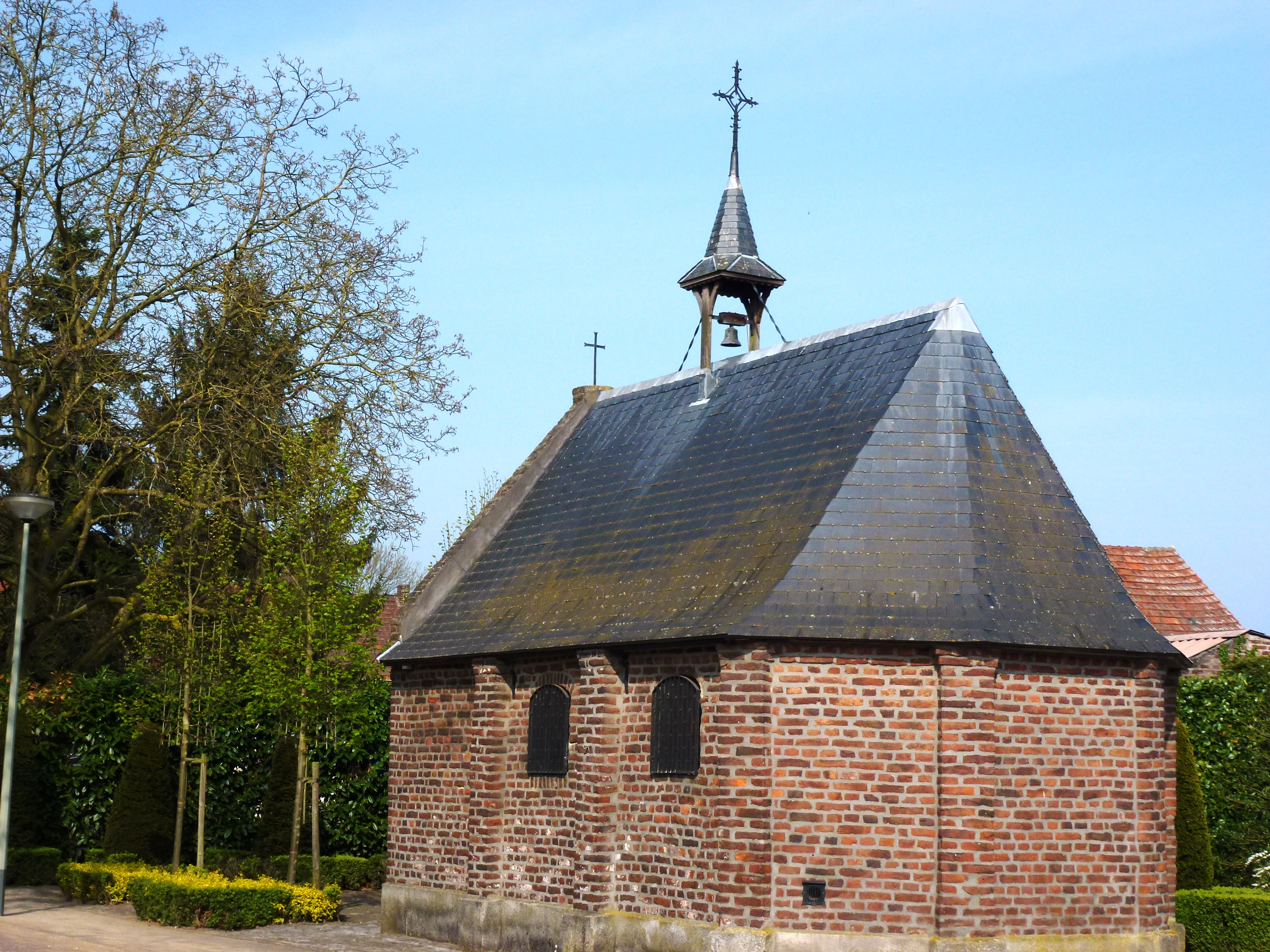 Brachterbeek (Maasgouw) kapel OLV van Lorette